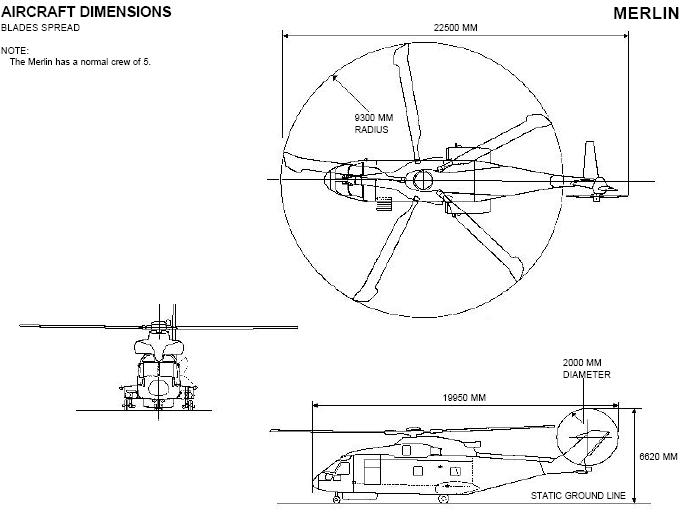 EH101 Merlin drwaing with dimensions